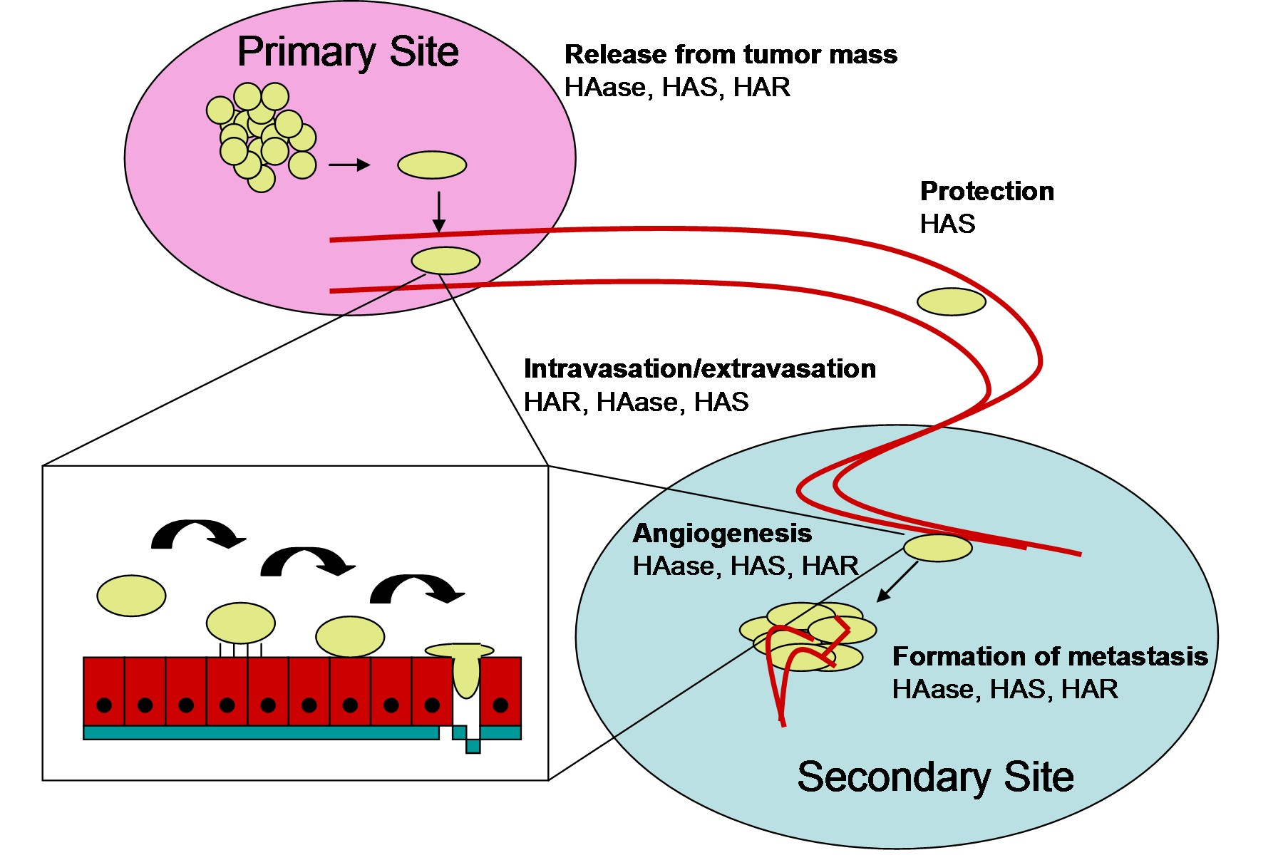 cancer metastasis and hyaluronan